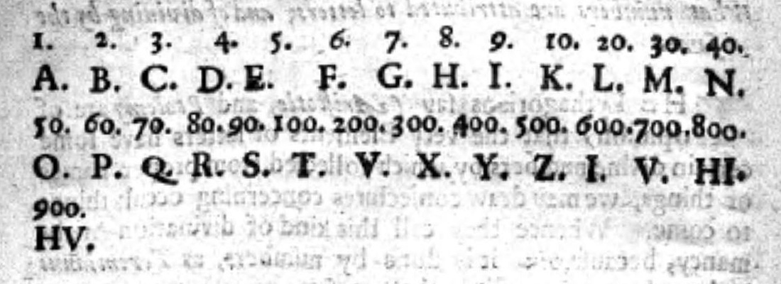 A table showing numerical values applied to letters in the Agrippan method of numerology